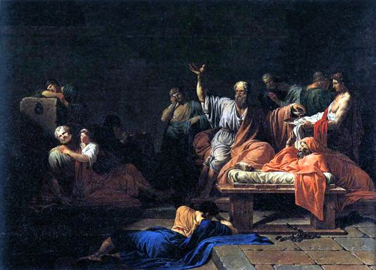 The Death of Socrateslabel QS:Len,"The Death of Socrates" label QS:Lit,"La morte di Socrate"